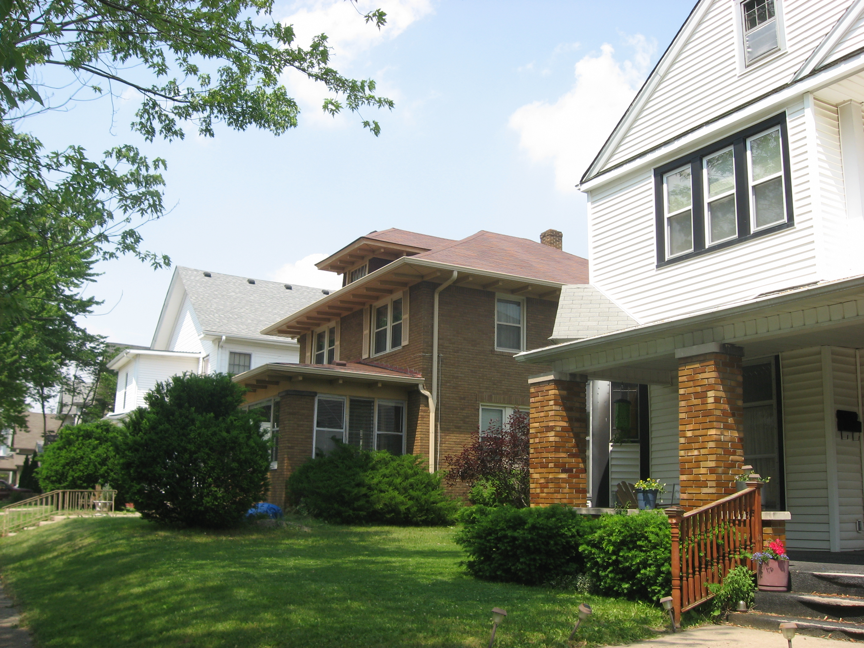 Houses on the eastern side of the 500 block of S. Main Street in Frankfort, Indiana, United States. This block is part of the South Frankfort Historic District, a historic district that is listed on the National Register of Historic Places.